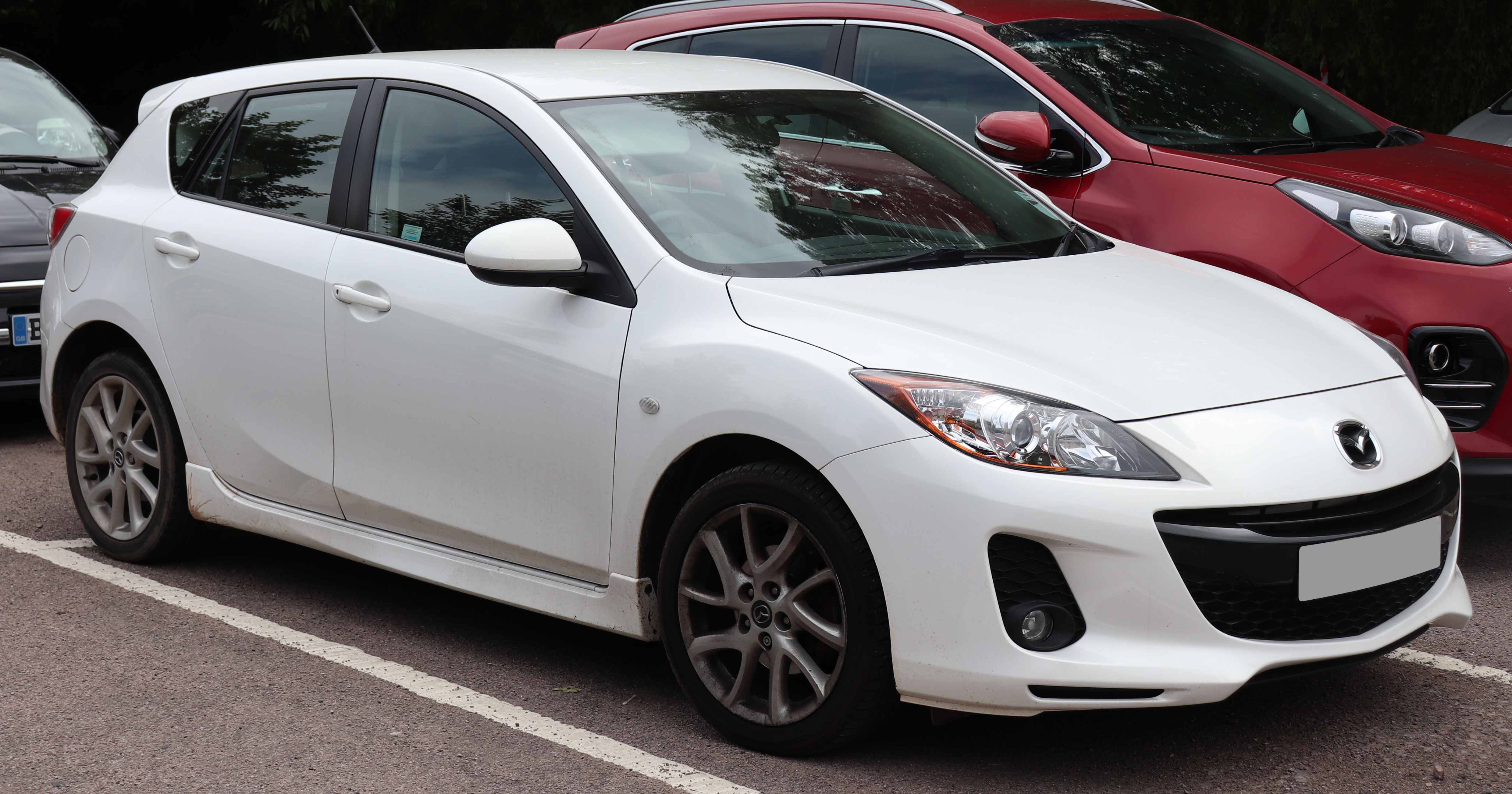 2013 Mazda3 Tamura 1.6 Taken in Leamington Spa